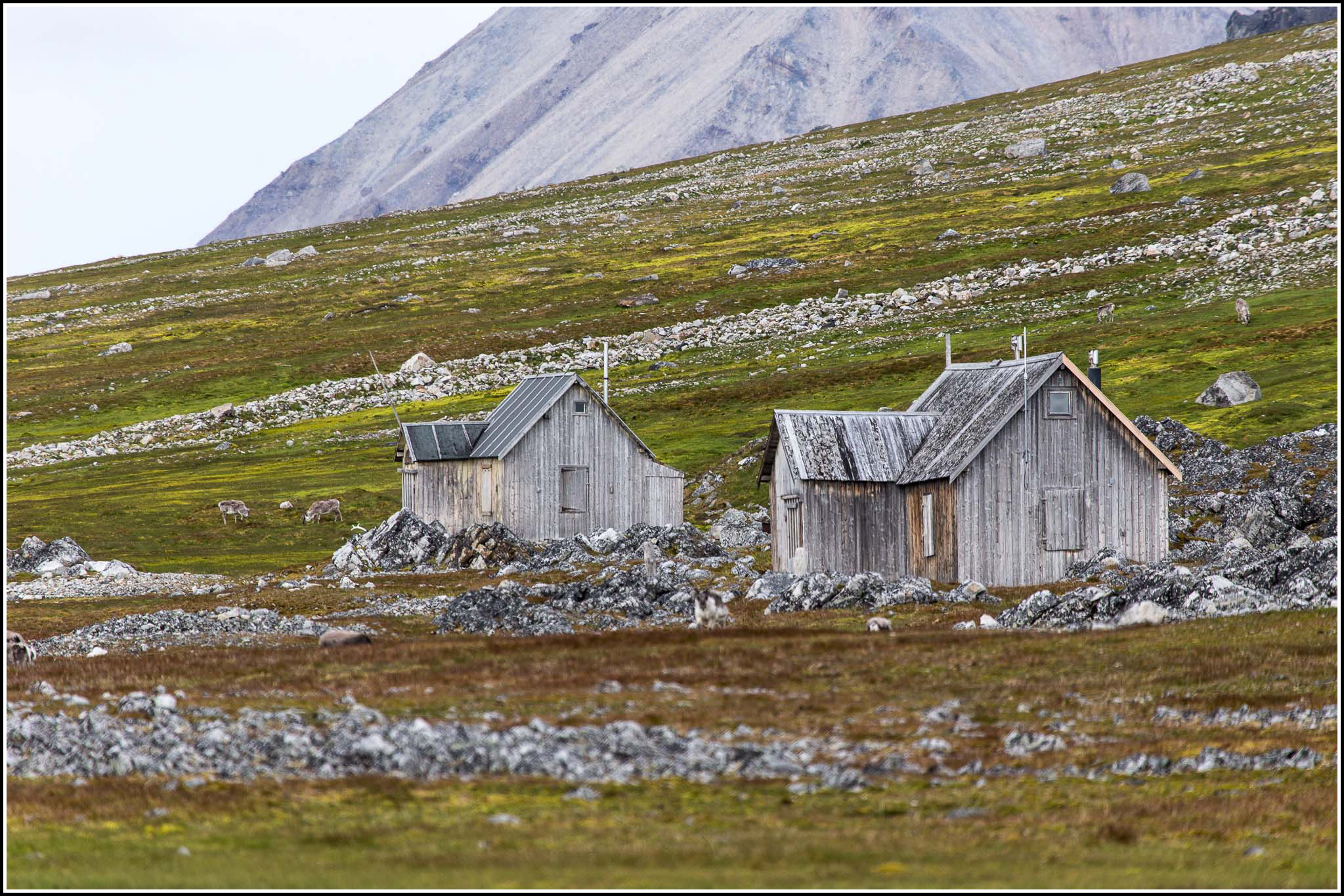 A selection of images from a recent trip to Svalbard.